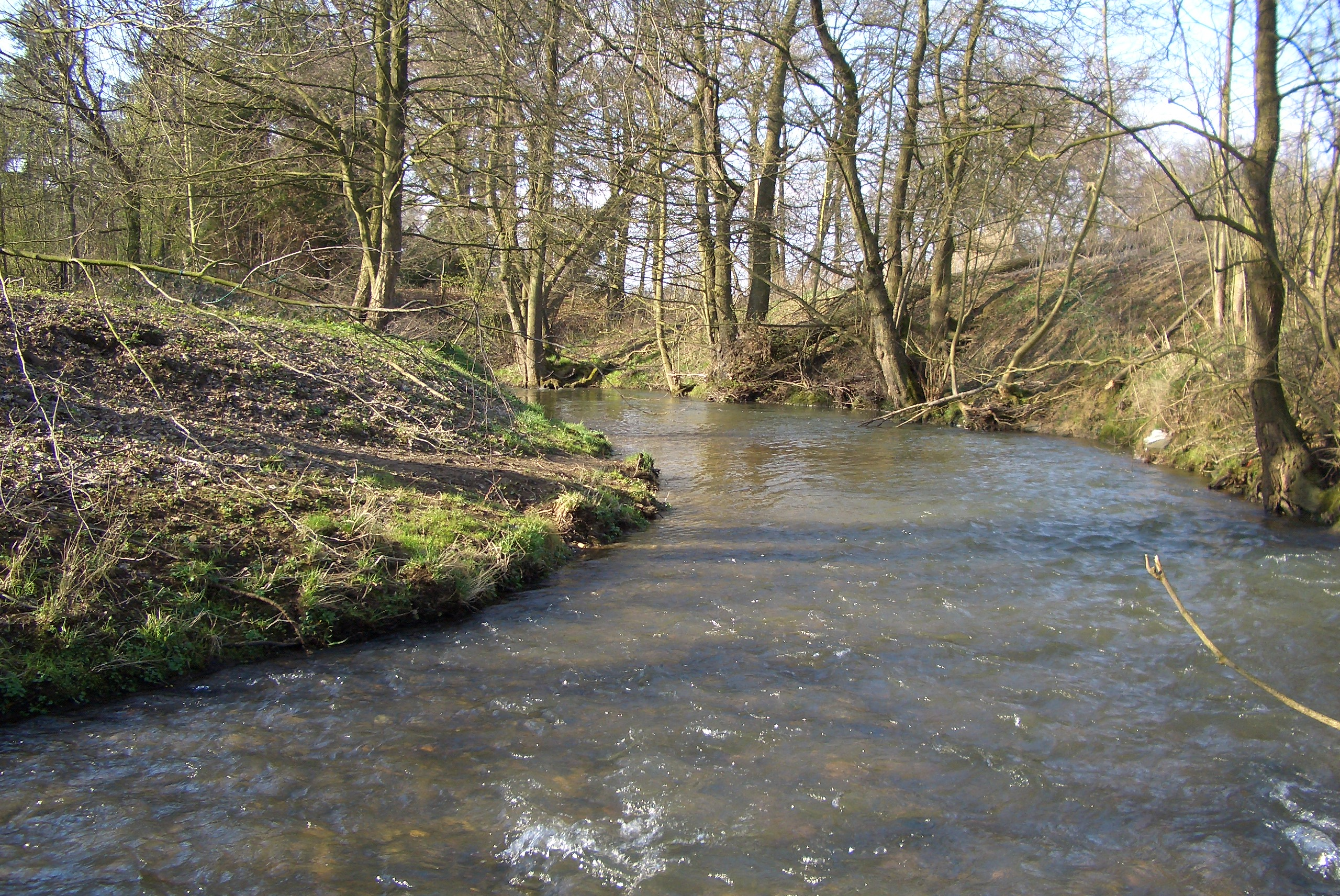 Photo of stream Pleisbach near Sankt Augustin-Schmerbroich, Germany.